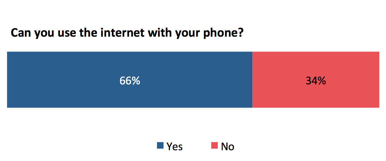 graph showing how many smartphones are in Mexico - from Mexico phone survey WMF